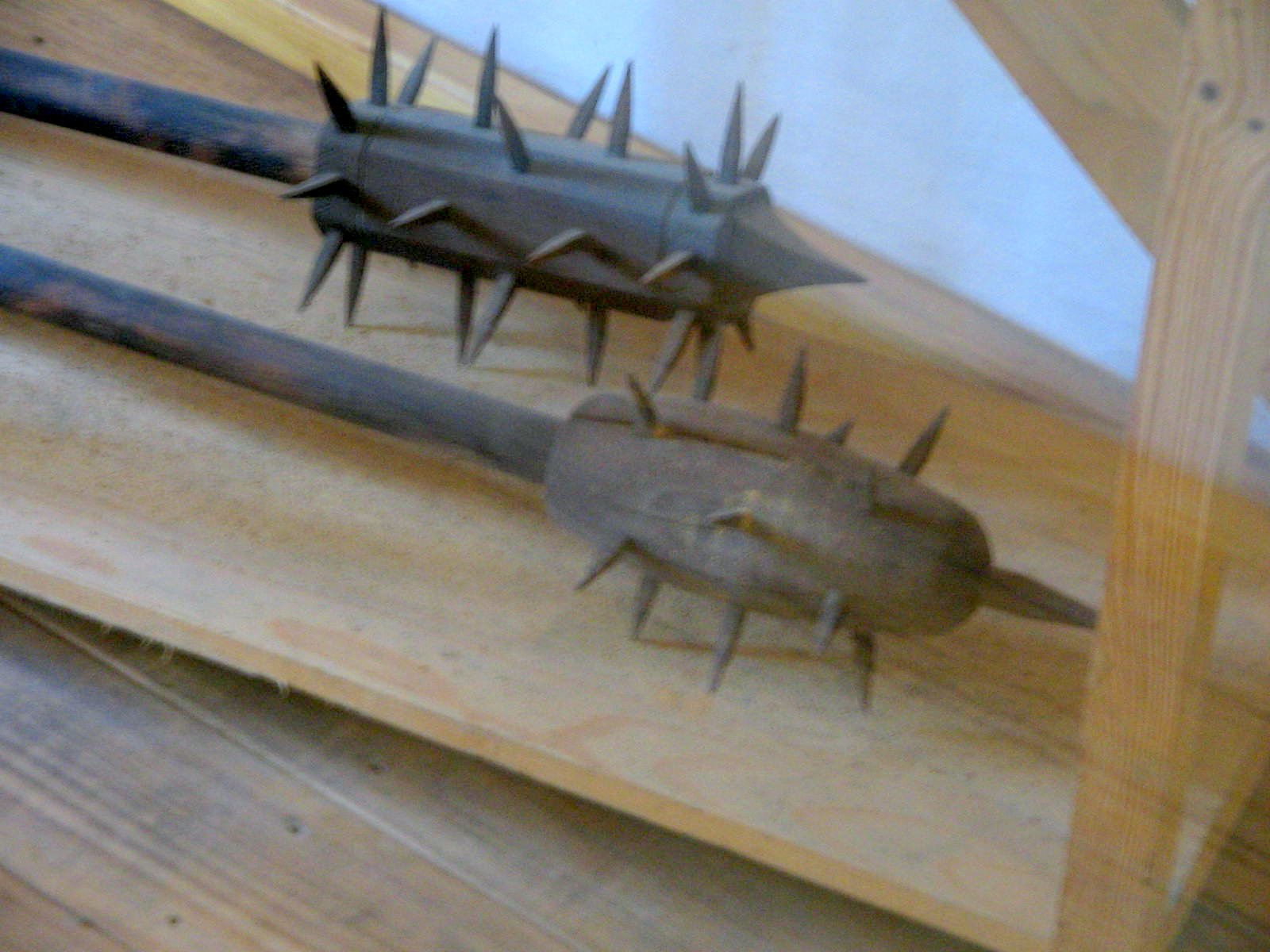 Predjama Castle, near Postojna, Slovenia, Buzdovan